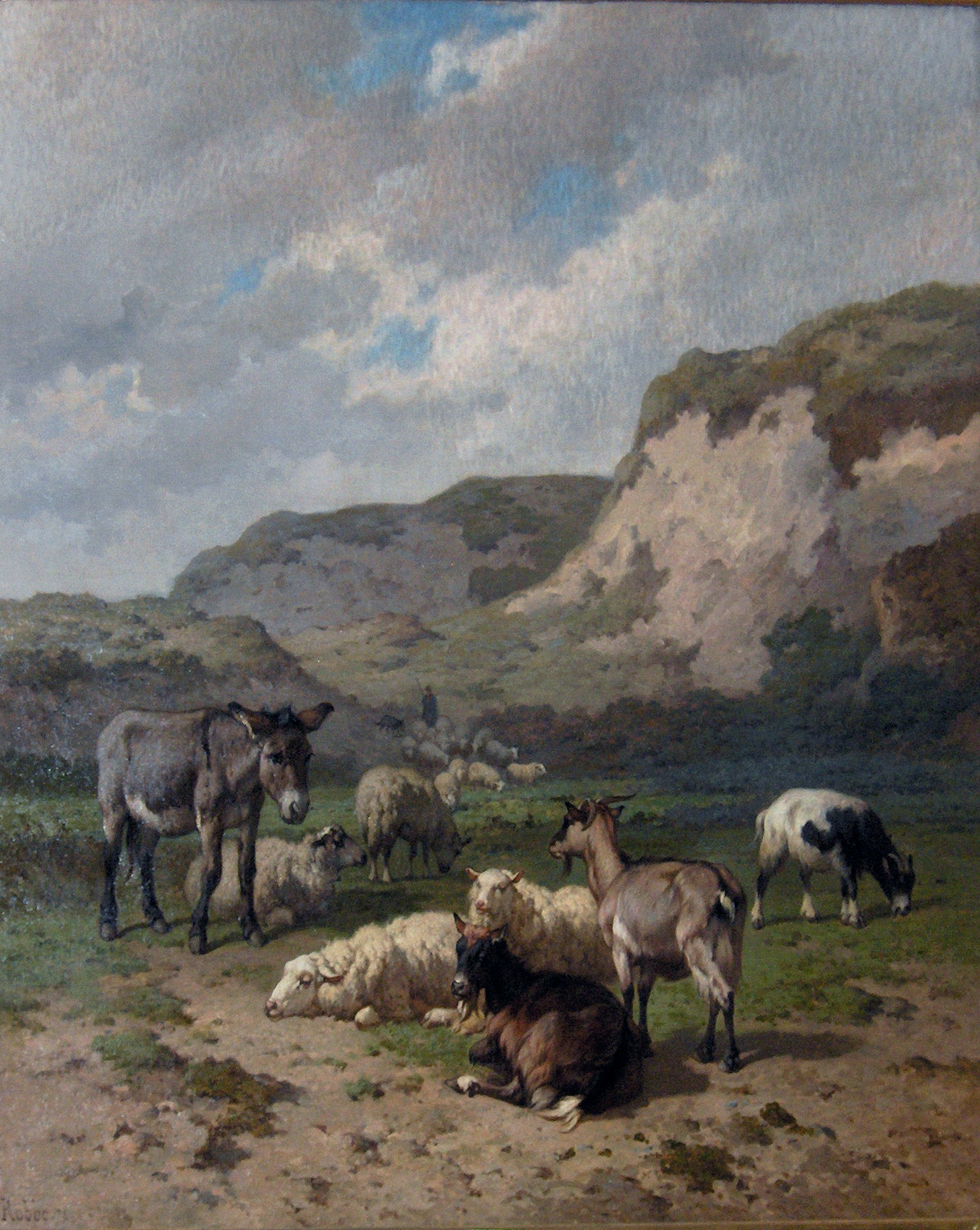 Landscape with shepherd, sheep, goats and donkey (1878) by Louis Robbe (1806-1887); private collection